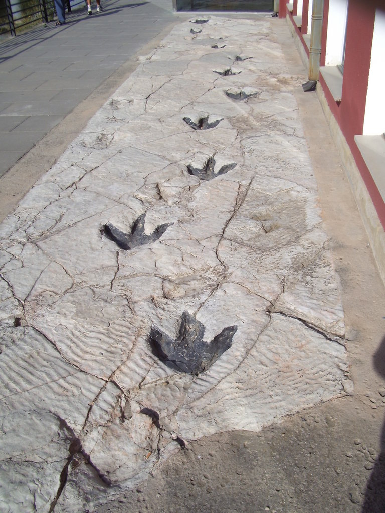 Replicas of dinosaur footprints found in La Rioja (Science Museum in Logroño)